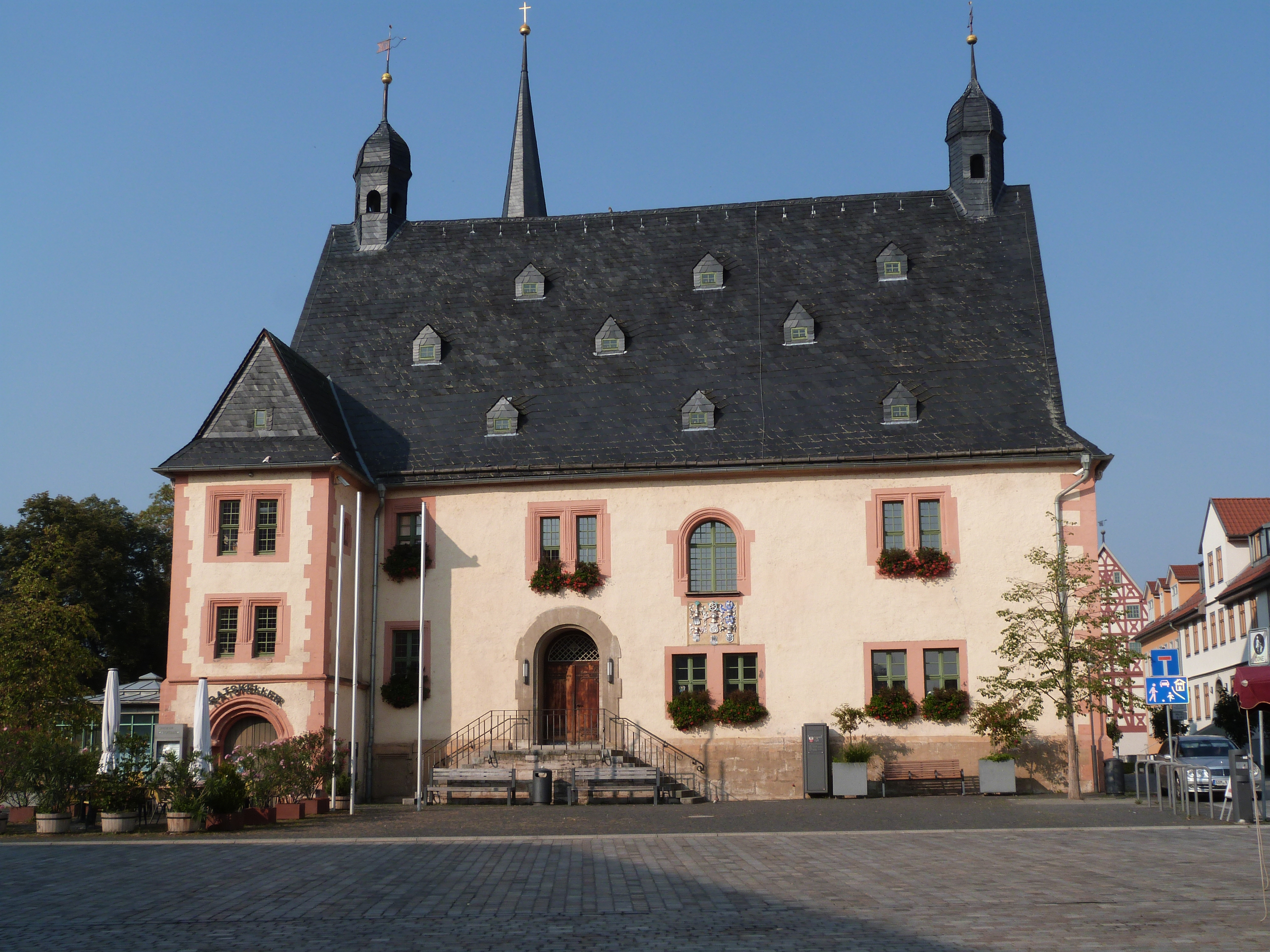 Town hall of Sömmerda, Thuringia